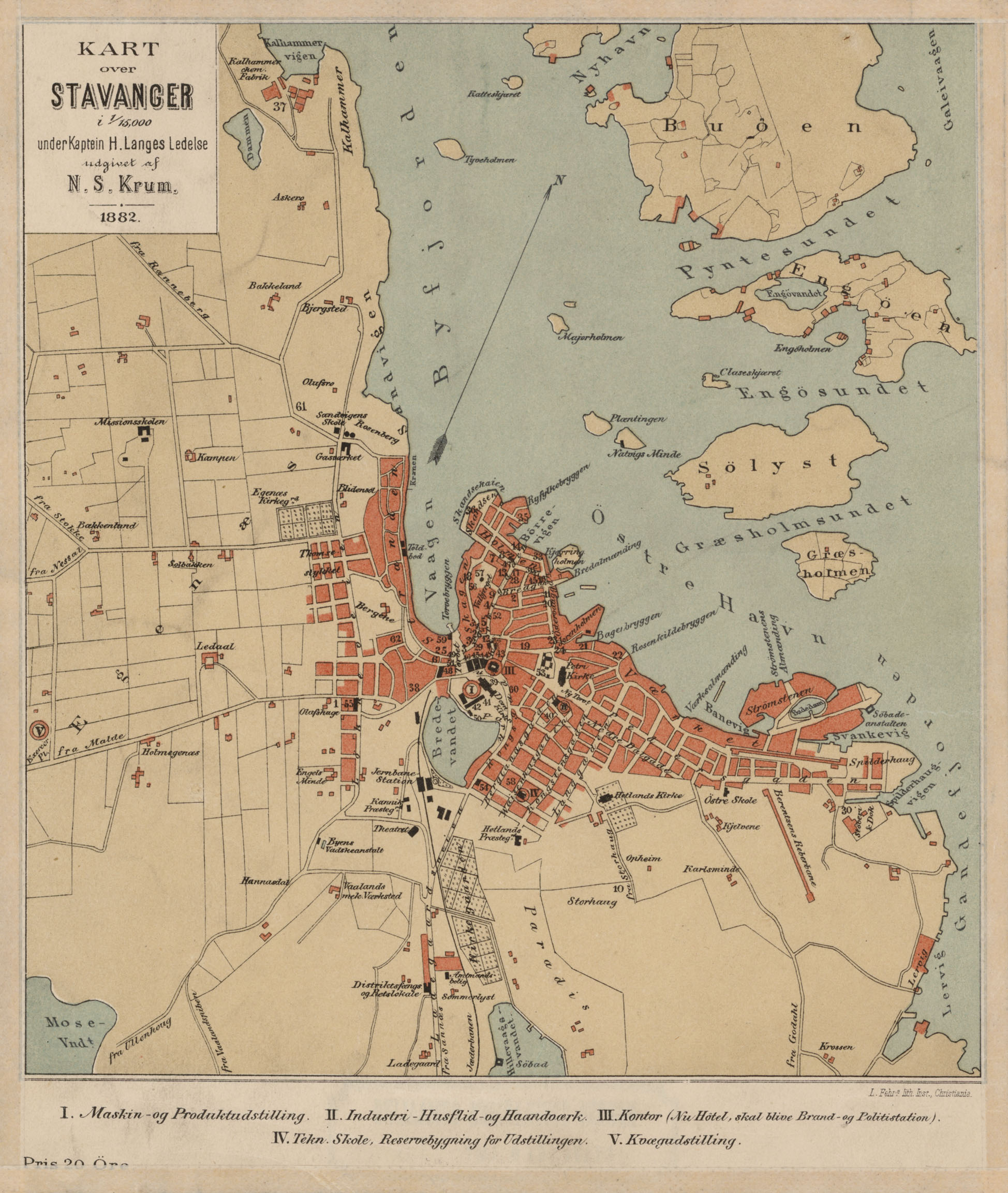 Map of Stavanger, Norway, 1882